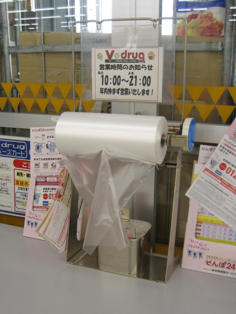 At the chemist in Ena. Another nice wrapping stand. other